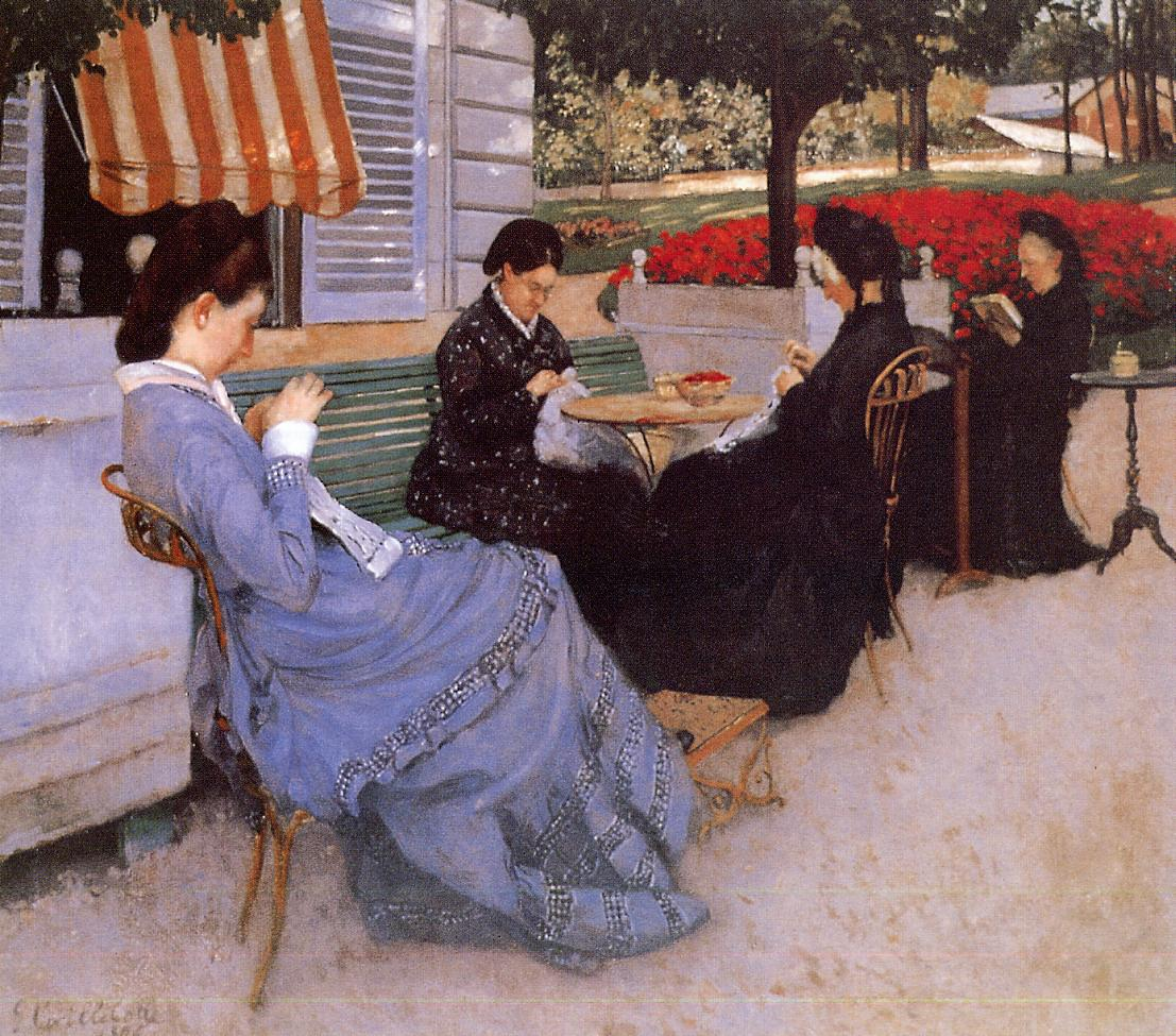 Caillebotte's mother along with his aunt, cousin, and a family friend